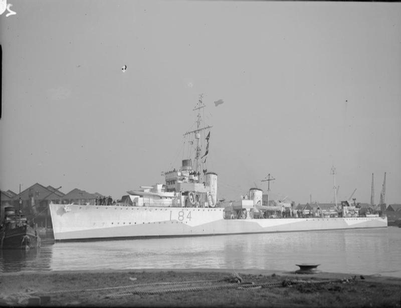 The Royal Navy during the Second World War HMS KEPPEL docked in the East India Dock, London.